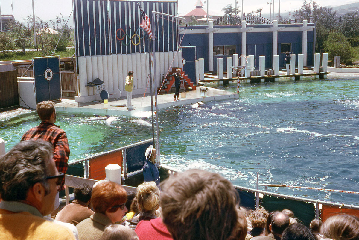 1970 orca show at the original Marine World animal park in Redwood City, Calif., USA.